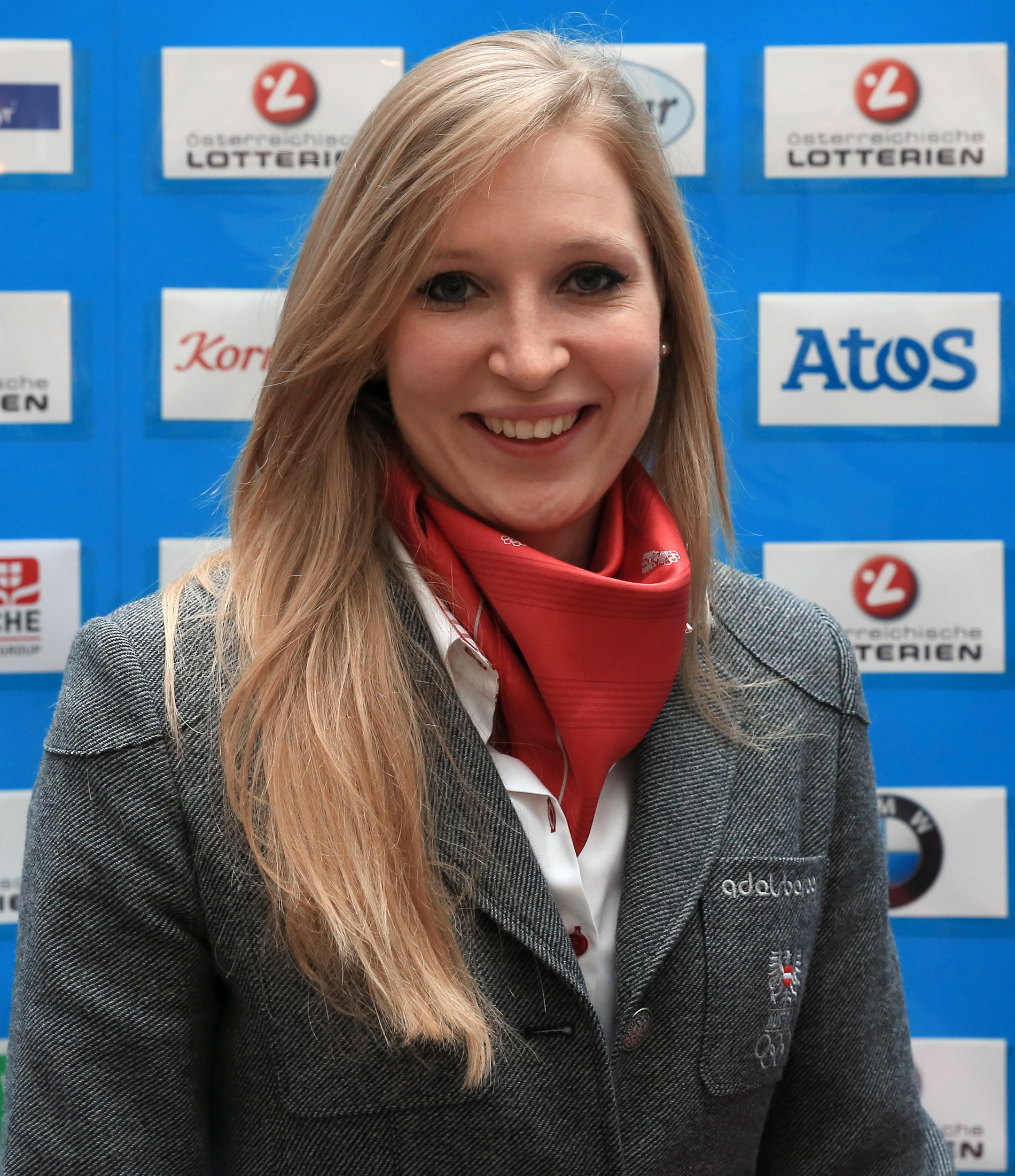 Viola Kleiser (bobsleigh) at the outfitting of the Austrian team for the 2014 Winter Olympics (Hotel Marriott in Vienna, Austria.